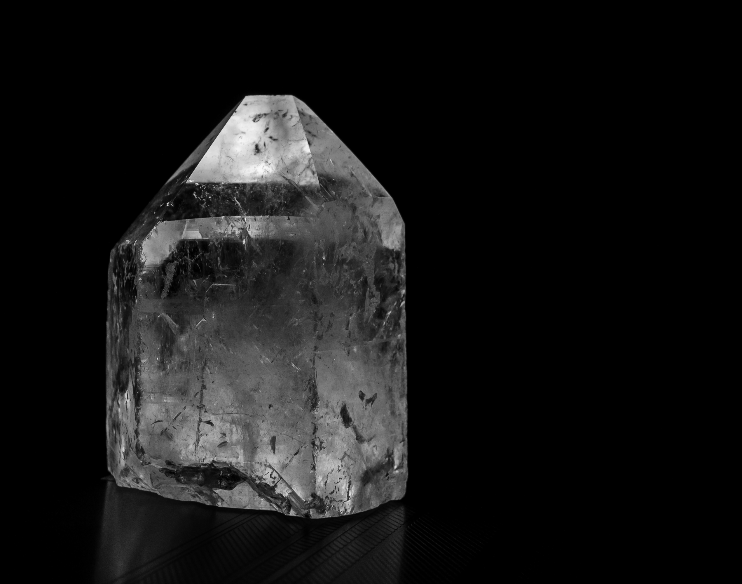 The dimensions of this stone is 8 inches high and 5 inches wide. Pure quartz, traditionally called rock crystal (sometimes called clear quartz), is colorless and transparent or translucent. Common colored varieties include citrine, rose quartz, amethyst, smoky quartz and milky quartz.